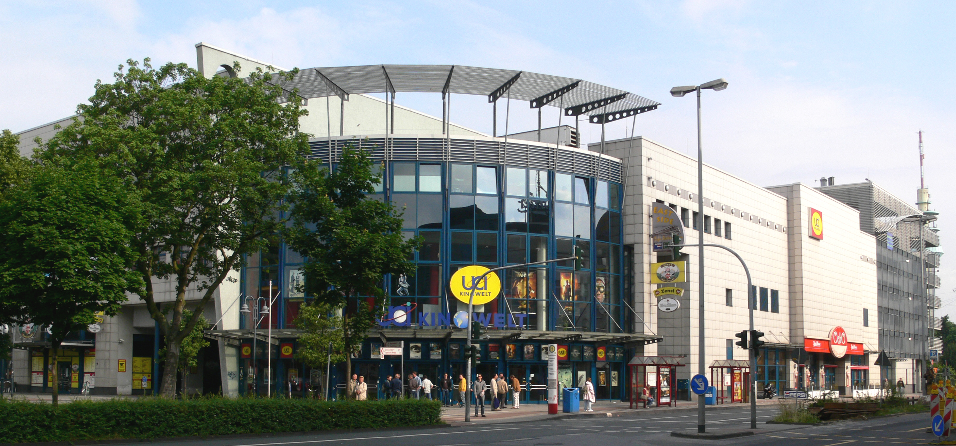 Cinema UCI Kinowelt, Neudorfer Strasse 36-40, Duisburg, Germany.